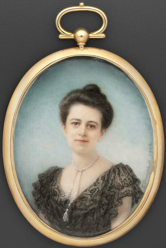 Martha Codman (Mrs. Maxim Karolik) 1906 Georgine Campbell (American, 1861–1931) Dimensions 7.81 x 6.1 cm (3 1/16 x 2 3/8 in.) Accession Number 64.617 Medium or Technique Watercolor on ivory Not On View Collections Americas Classifications Miniatures Provenance The artist; to Martha Codman (Mrs. Maxim Karolik); to Maxim Karolik; to MFA, 1964, bequest of Maxim Karolik. Credit Line Bequest of Maxim Karolik